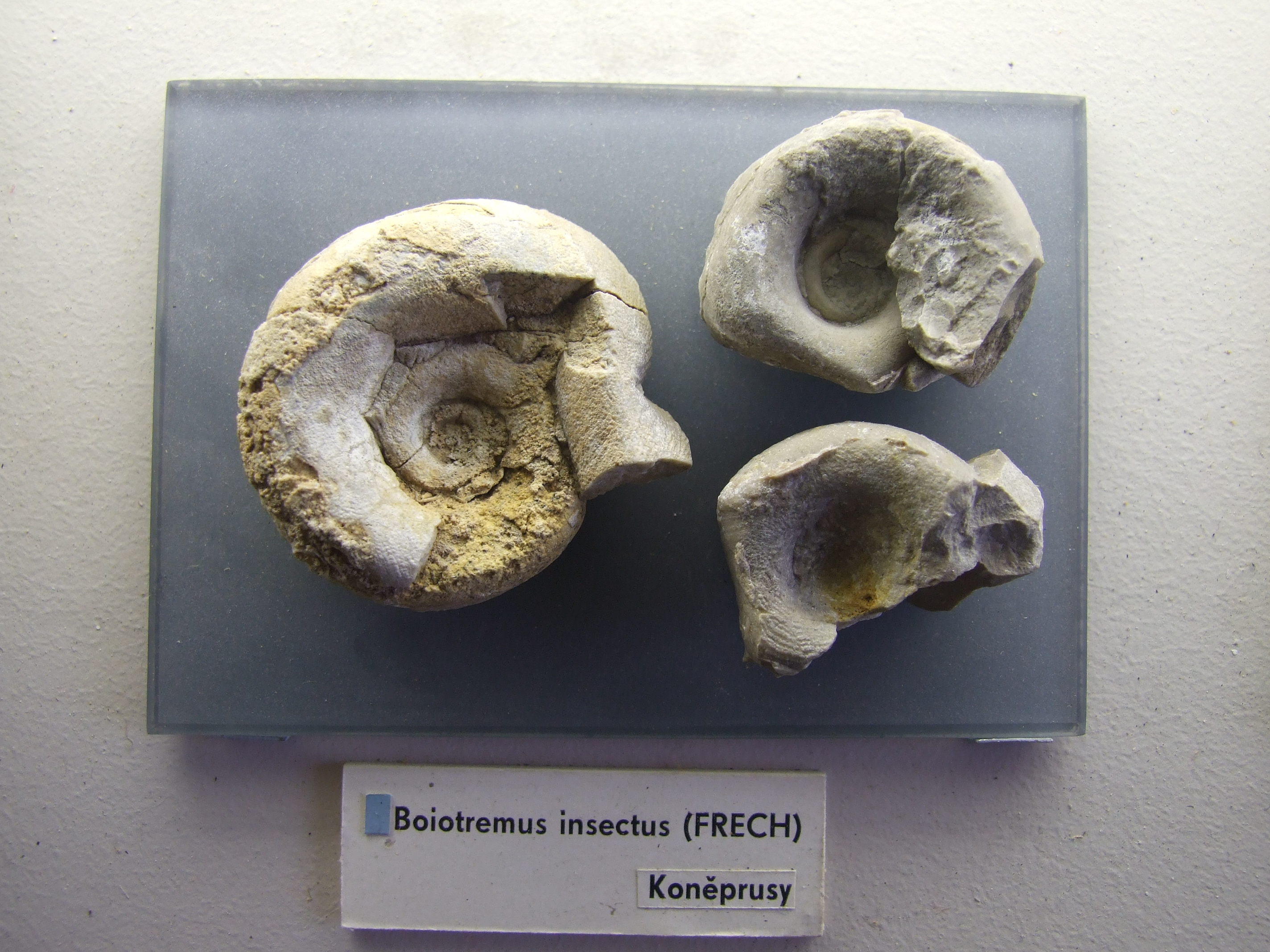 Fossil of Goniotremus insectus, synonym: Boiotremus insectus at the Palaeontological exhibition, National Museum in Prague.